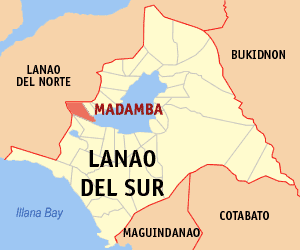 Map of the Lanao del Sur showing the location of Madamba